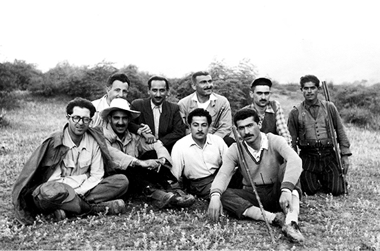 Abbas Zaryab Khoei and Iraj Afshar